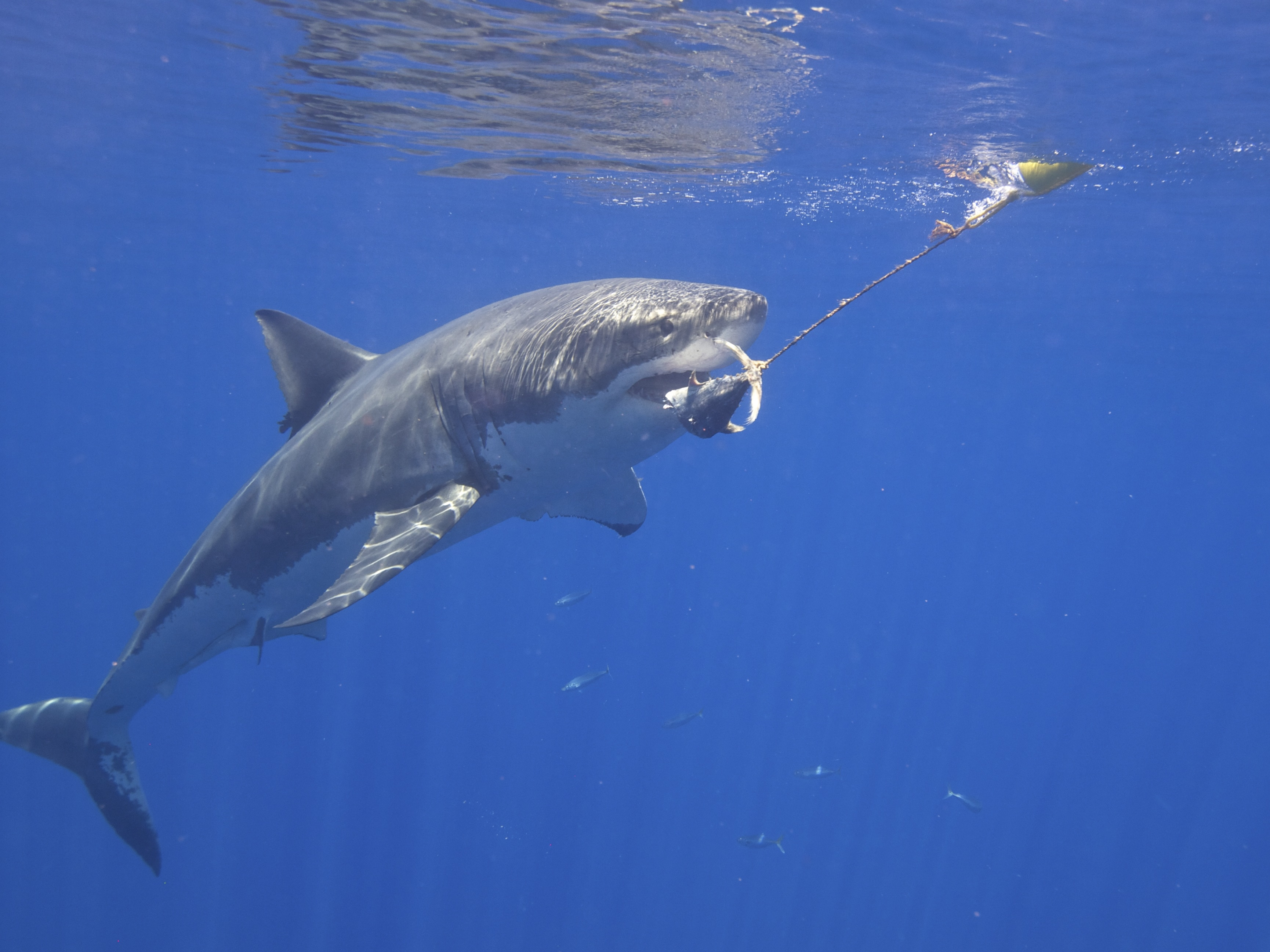 Great White Shark